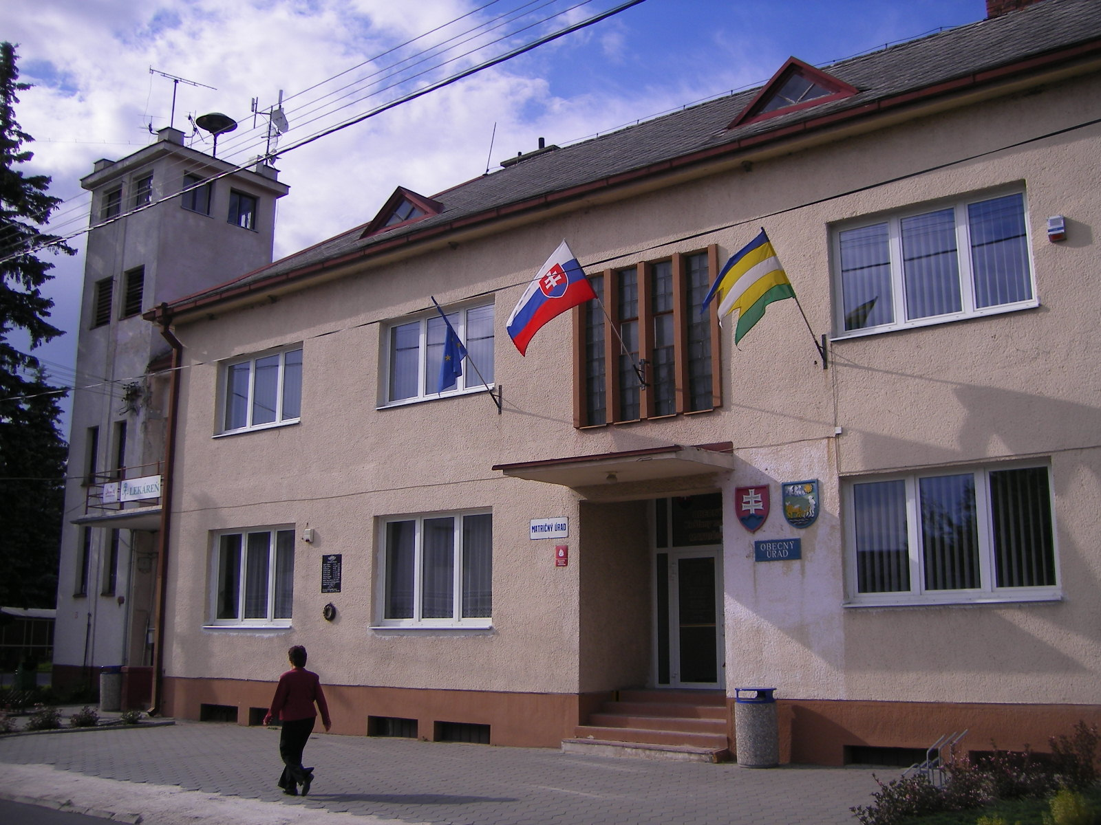 Košťany nad Turcom - town hall